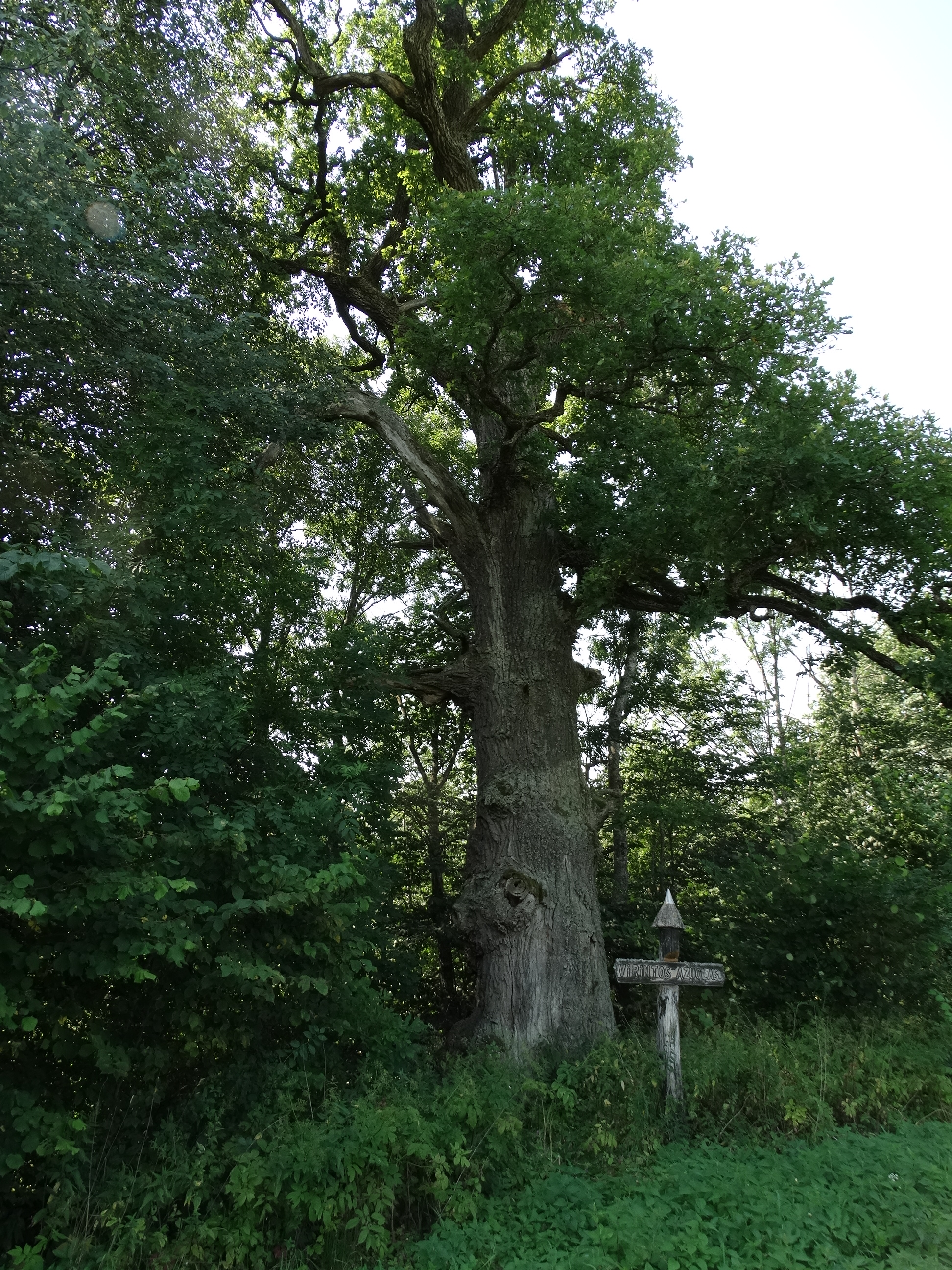 Virinta Oak, Molėtai district, Lithuania